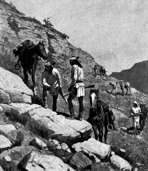 Frederic Remington's "Scouts," showing Apache scouts searching for the renegade Massai. From the 1898 book "Crooked Trails."